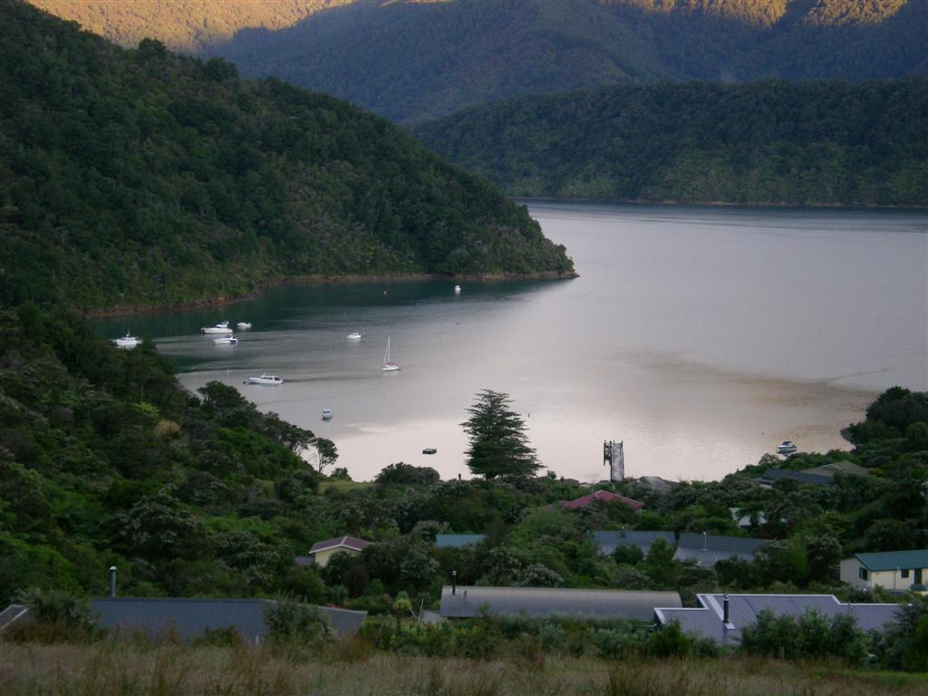 Penzance Bay View from walking track